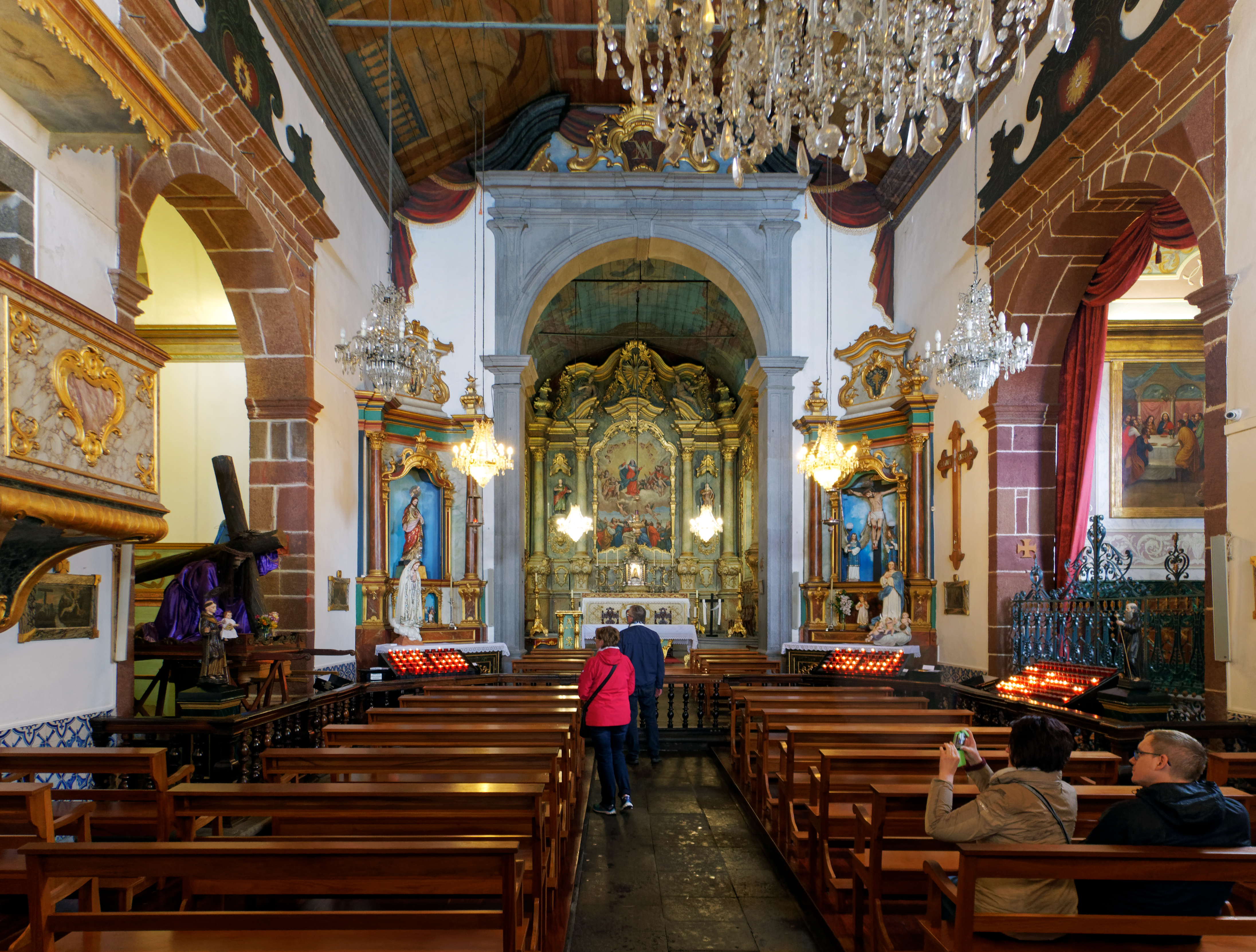 The Church of Monte (Madeira).